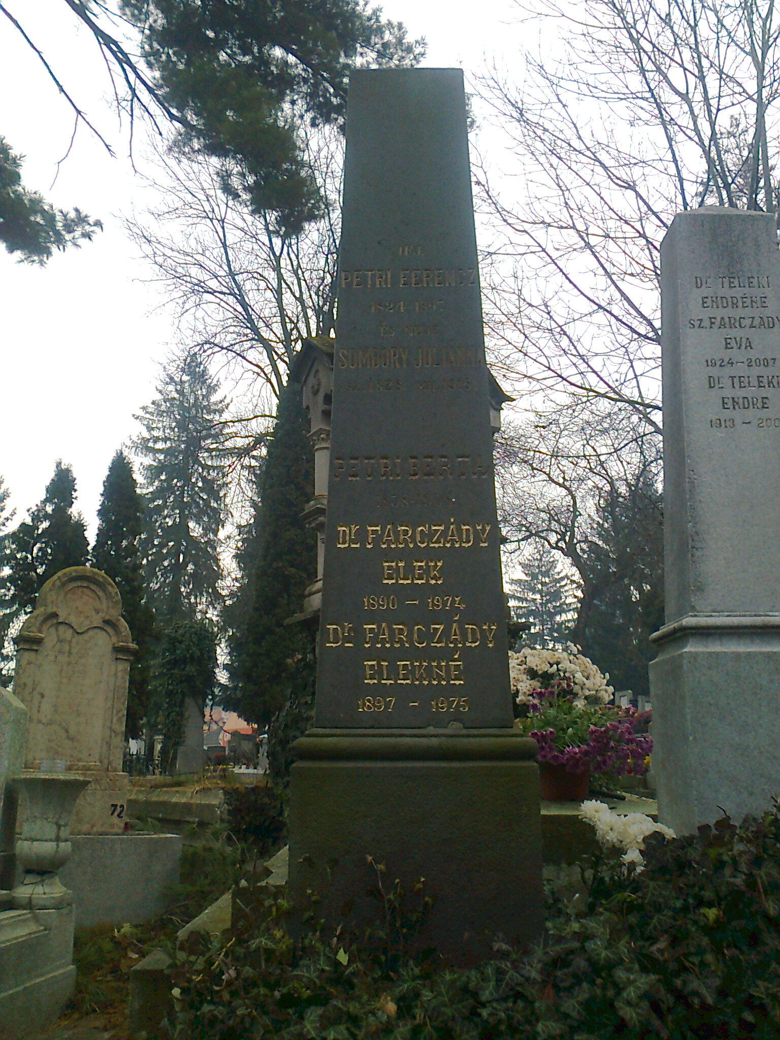 Tomb of the Hungarian historian Elek Farczády (1890-1974) in Marosvásárhely (Transylvania, Romania)